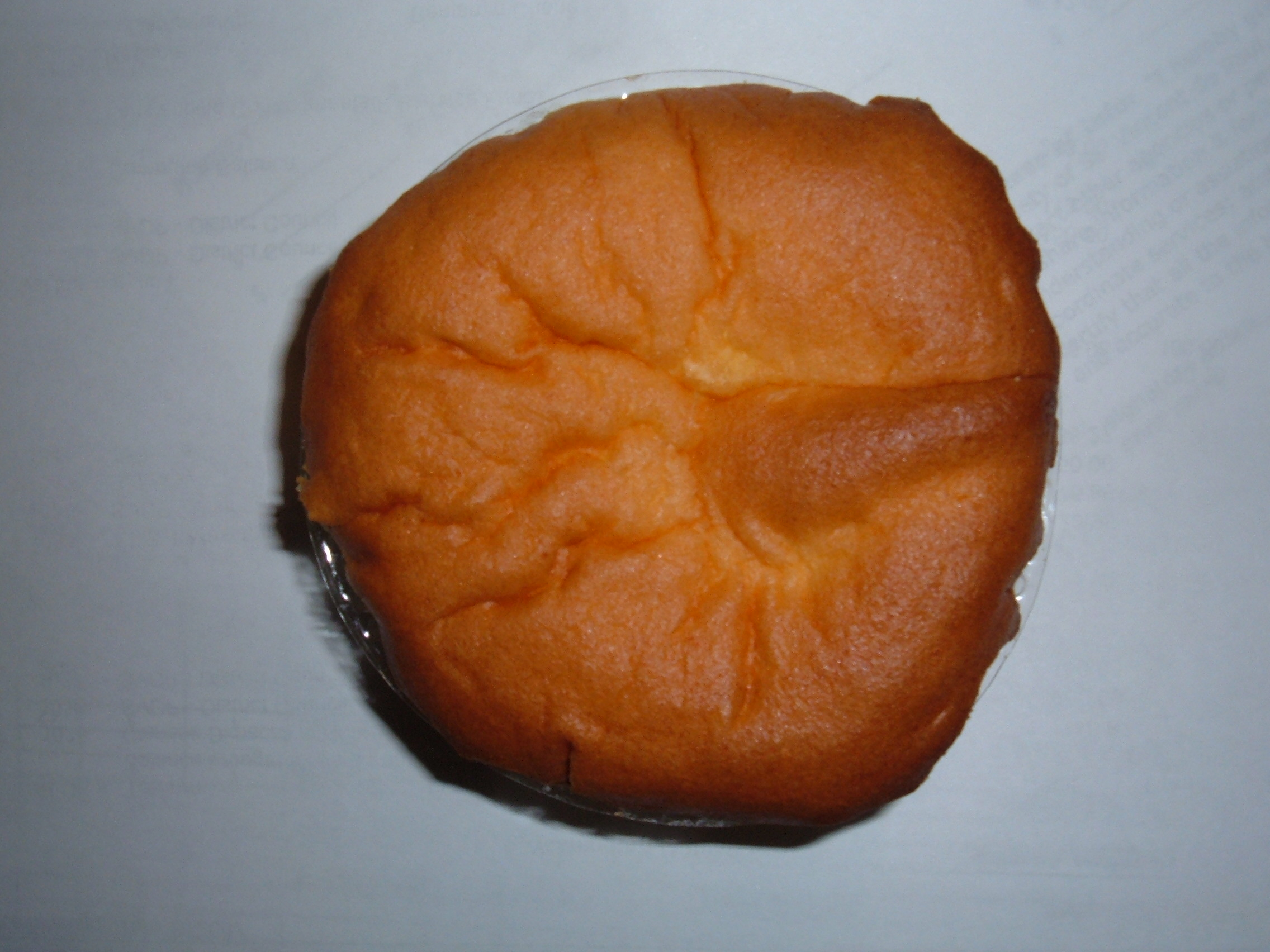 Mamon, made by Goldilocks Bakeshop